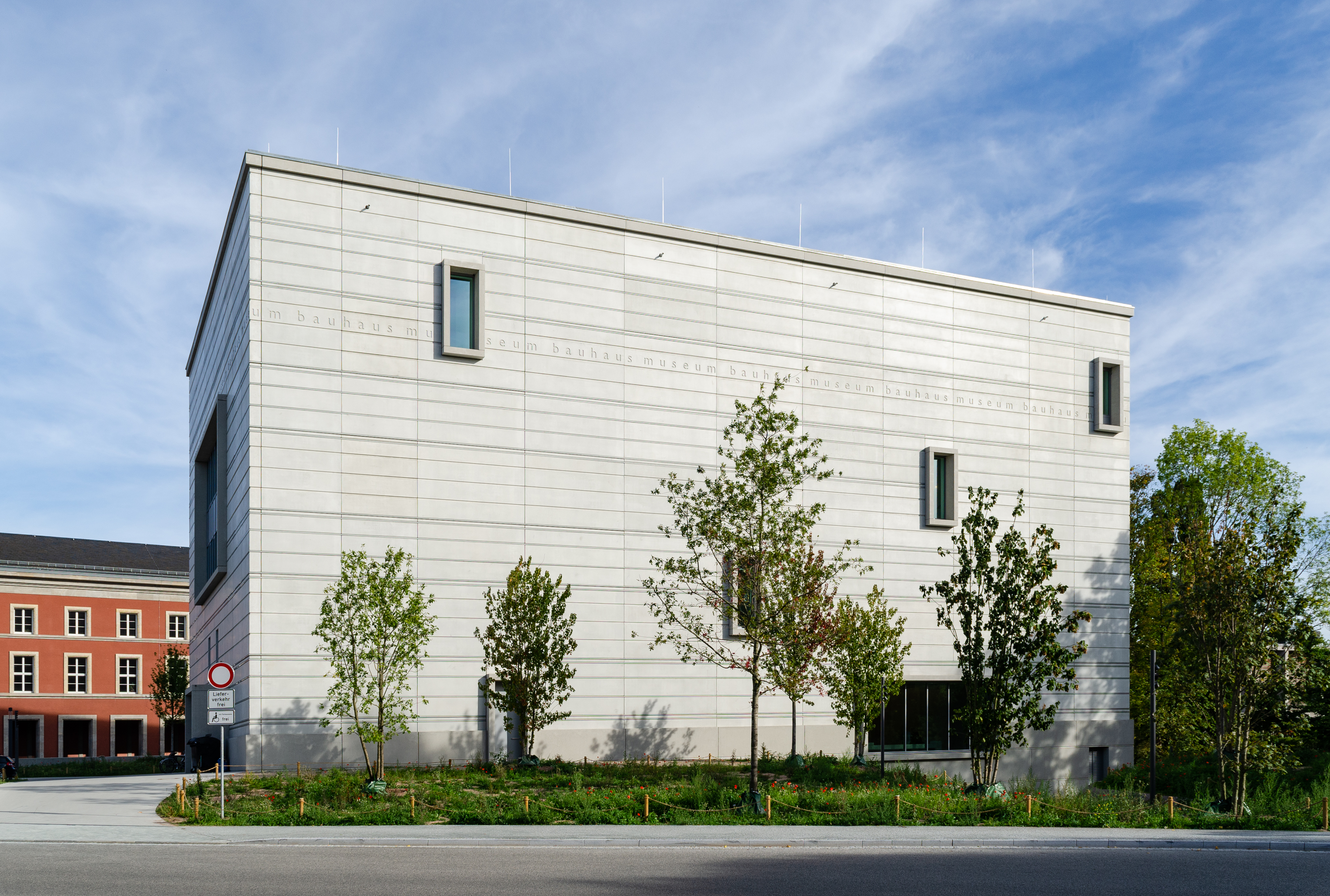 Weimar (Thuringia, Germany) – Bauhaus Museum – view from the northwest